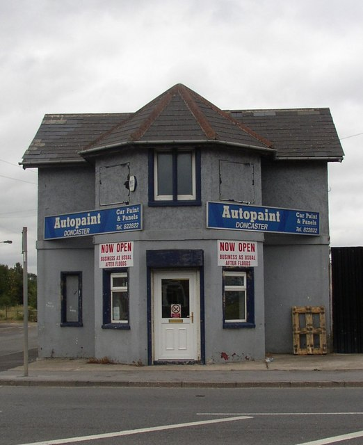 Toll Bar Toll House. The toll house which gave the name to the Village of Toll Bar. Sadly, now famous for the awful floods of 2007.